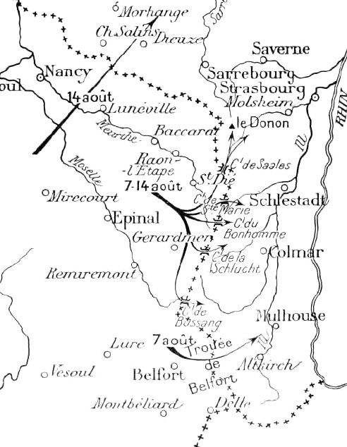 French invasion of Lorraine 7-20 August 1914